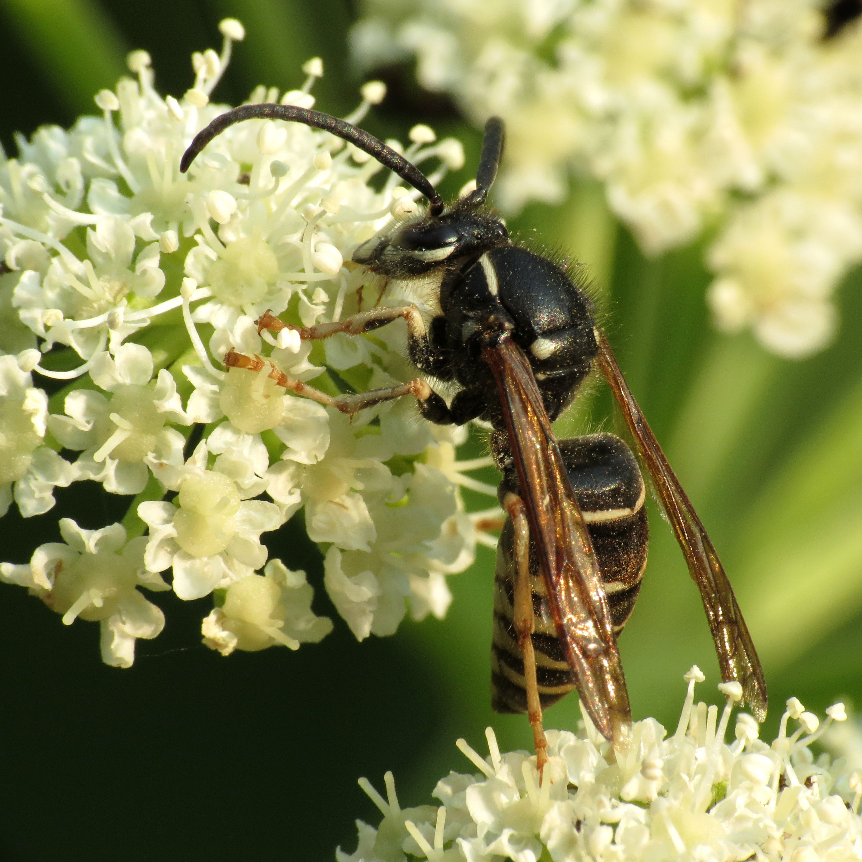 Dolichovespula adulterina also known as Dolichovespula arctica. Sawtooth National Forest near Stanley, Idaho.